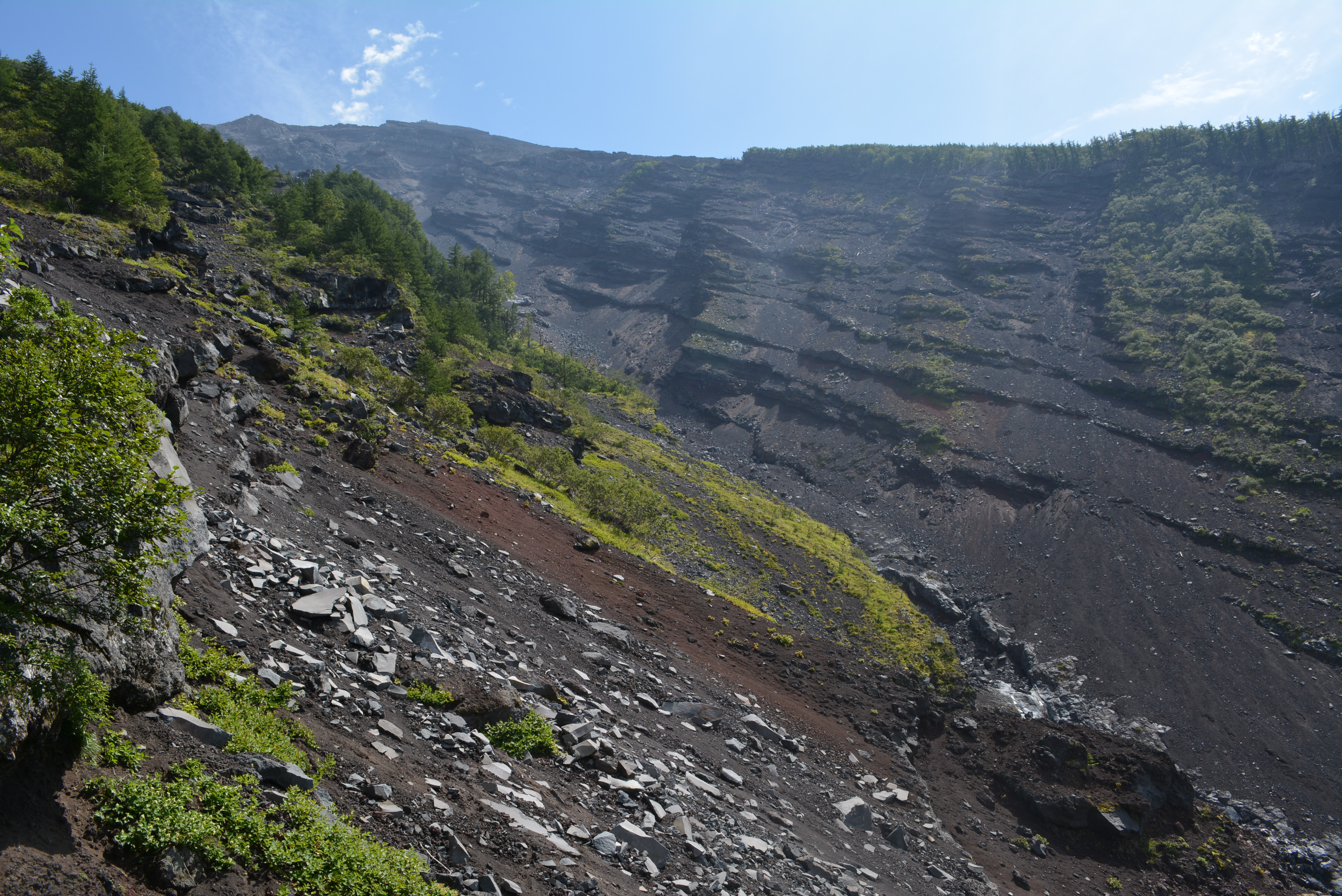 'Osawa Kuzure' collapse valley,Mt.Fuji,Japan